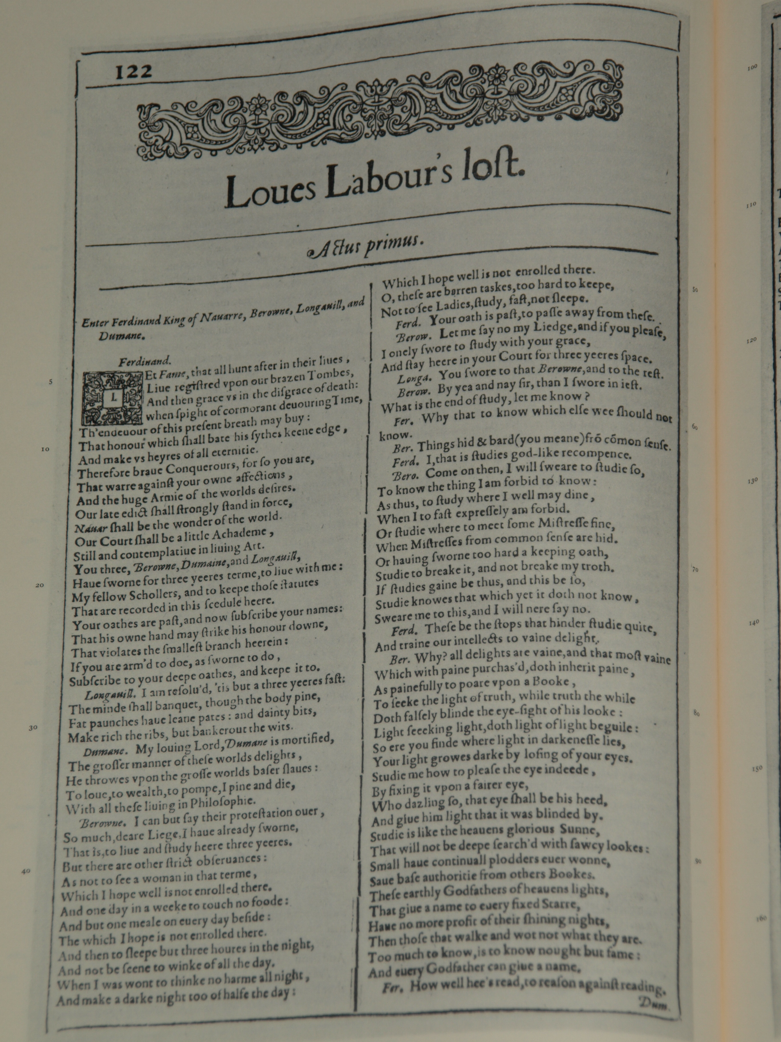 Photo of the first page of Love's Labour's Lost from a facsimile edition of the First Folio of Shakespeare's plays, published in 1623